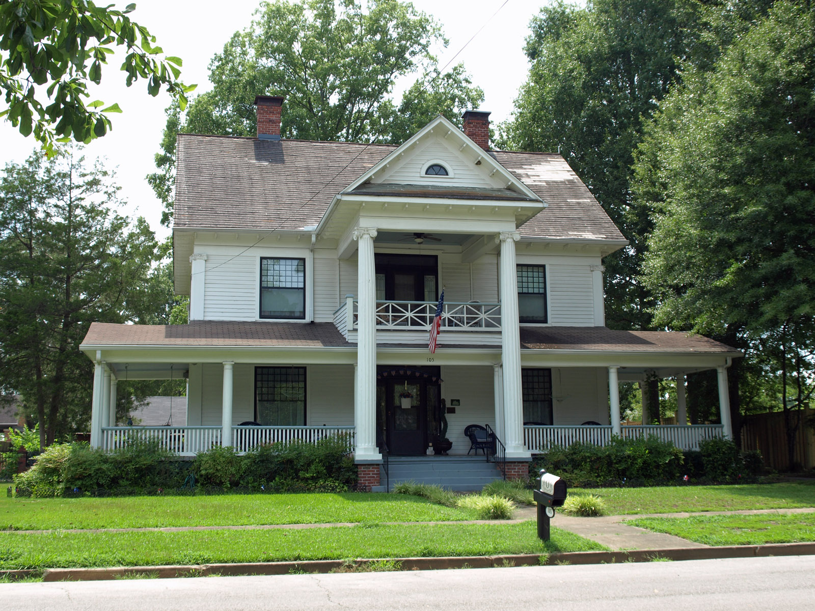 The Ernest Edward Greene House in Cullman, Alabama, listed on the National Register of Historic Places